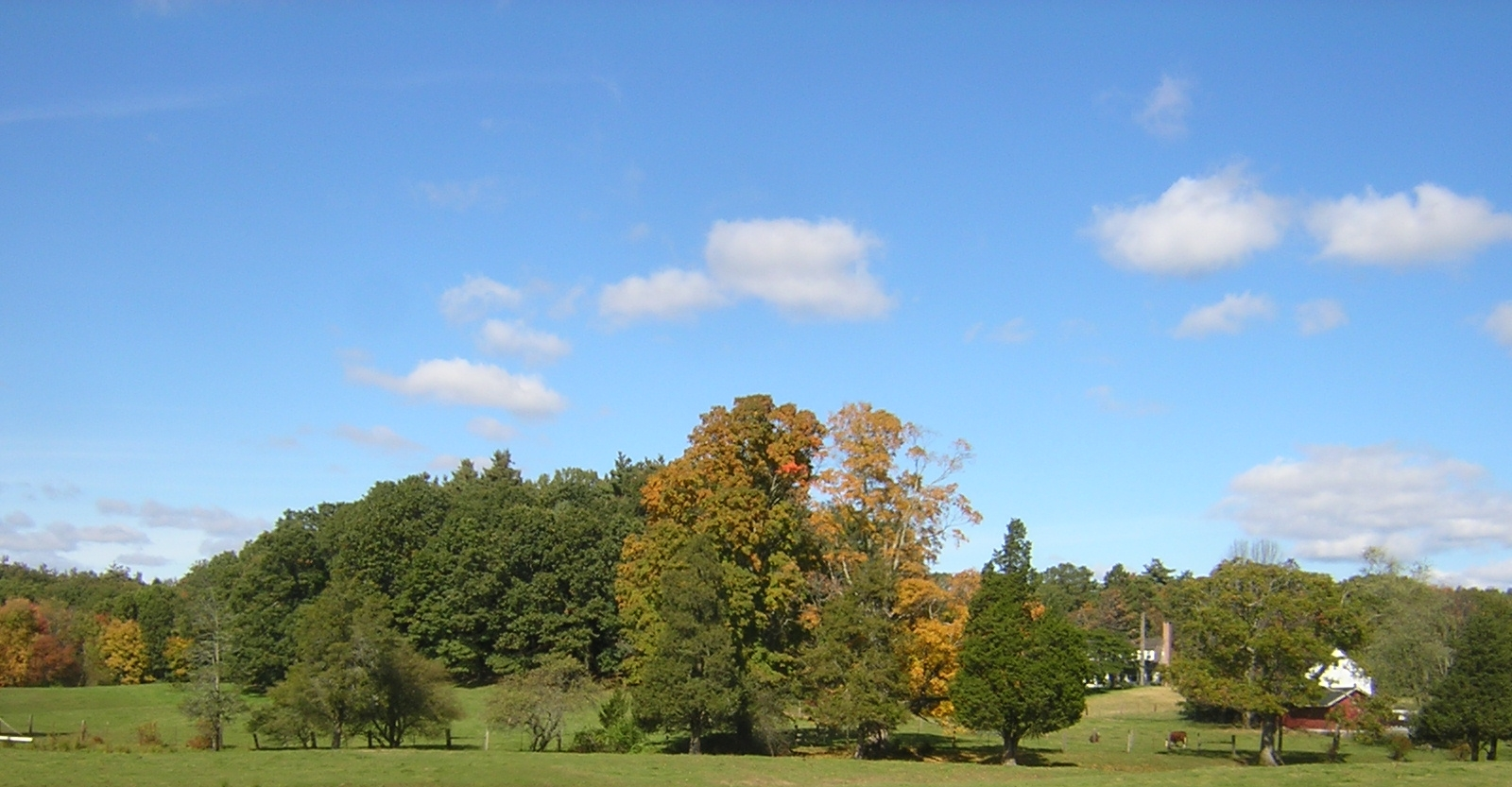 View of fields and pasture at Hunnewell Farm, corner of Pond Road and Washington Street, in the Hunnewell Estates Historic District, Wellesley, MA